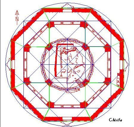 Dome of the Rock Floor Plan and Some speculations The image was created by cristian chirita. (vector drawing transformed in jpg) Cristian Chirita. For any information